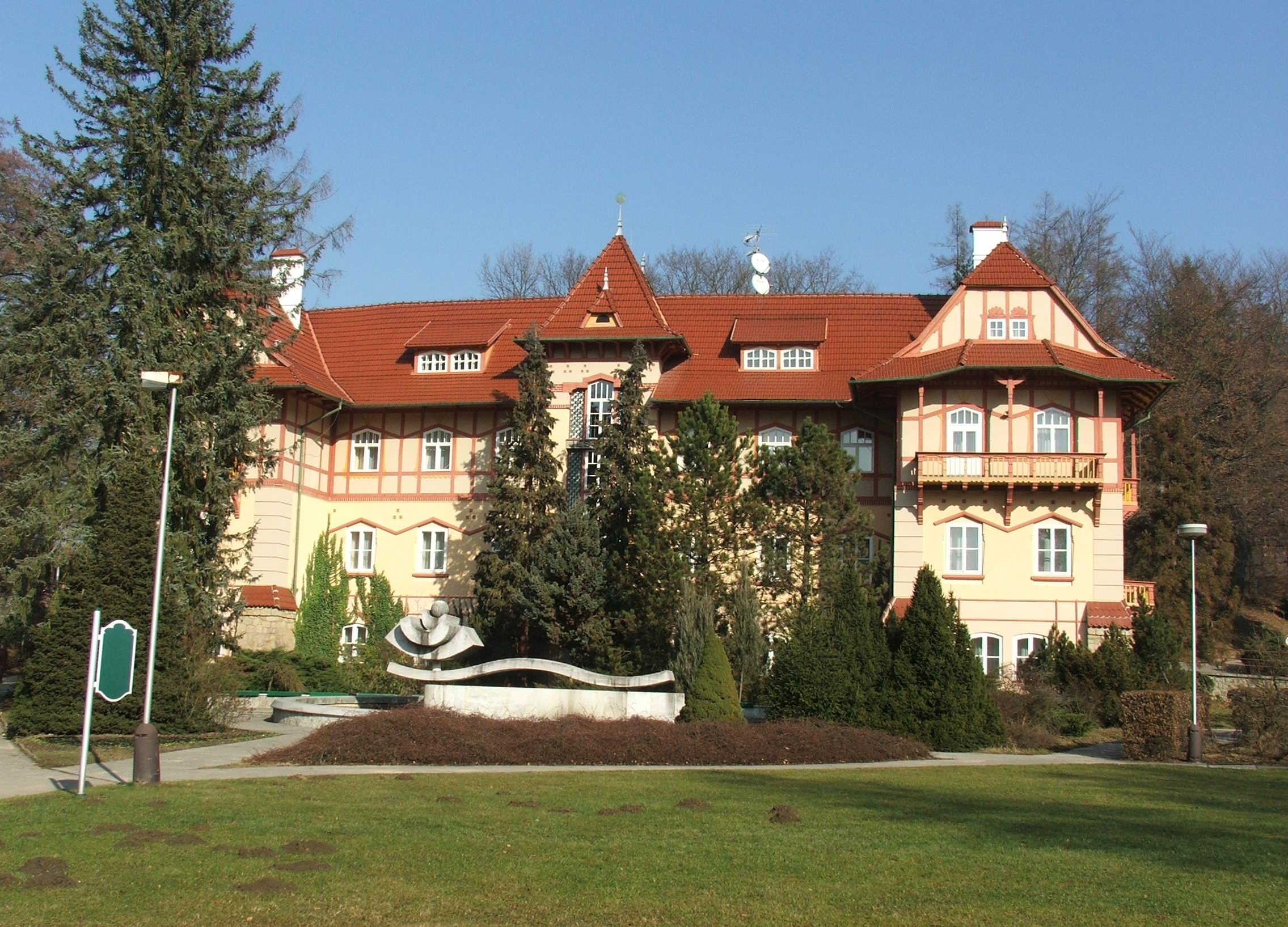 Spa houses and hotels in Luhačovice, Zlín Region, Moravia, Czechia